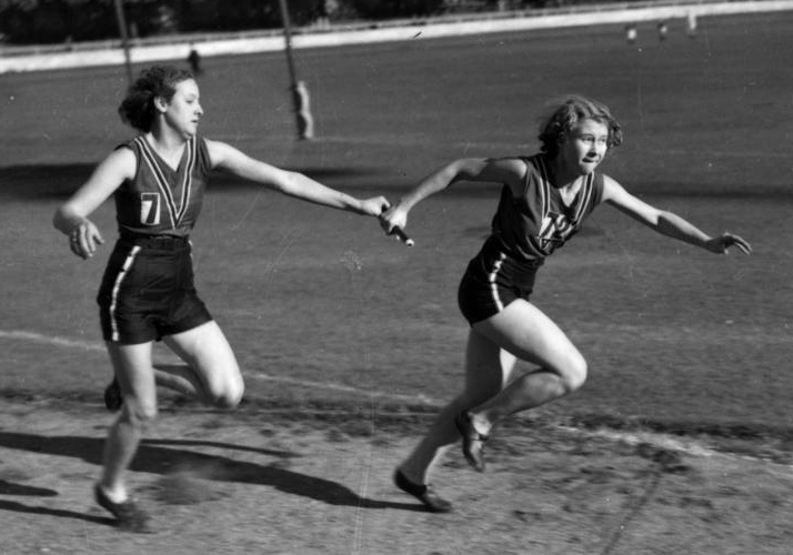 Runners in a relay race, Brisbane, 1939 Val Weaver and Vera Askew passing the baton in a relay race, 1939. (Information supplied with photograph).